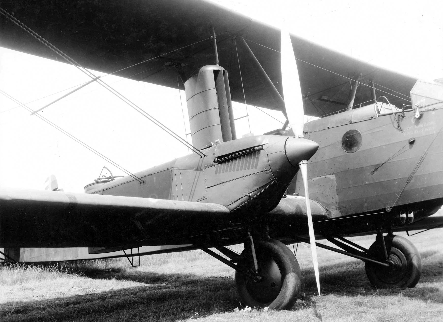 Keystone XB-1B, early U.S.Army bomber prototype